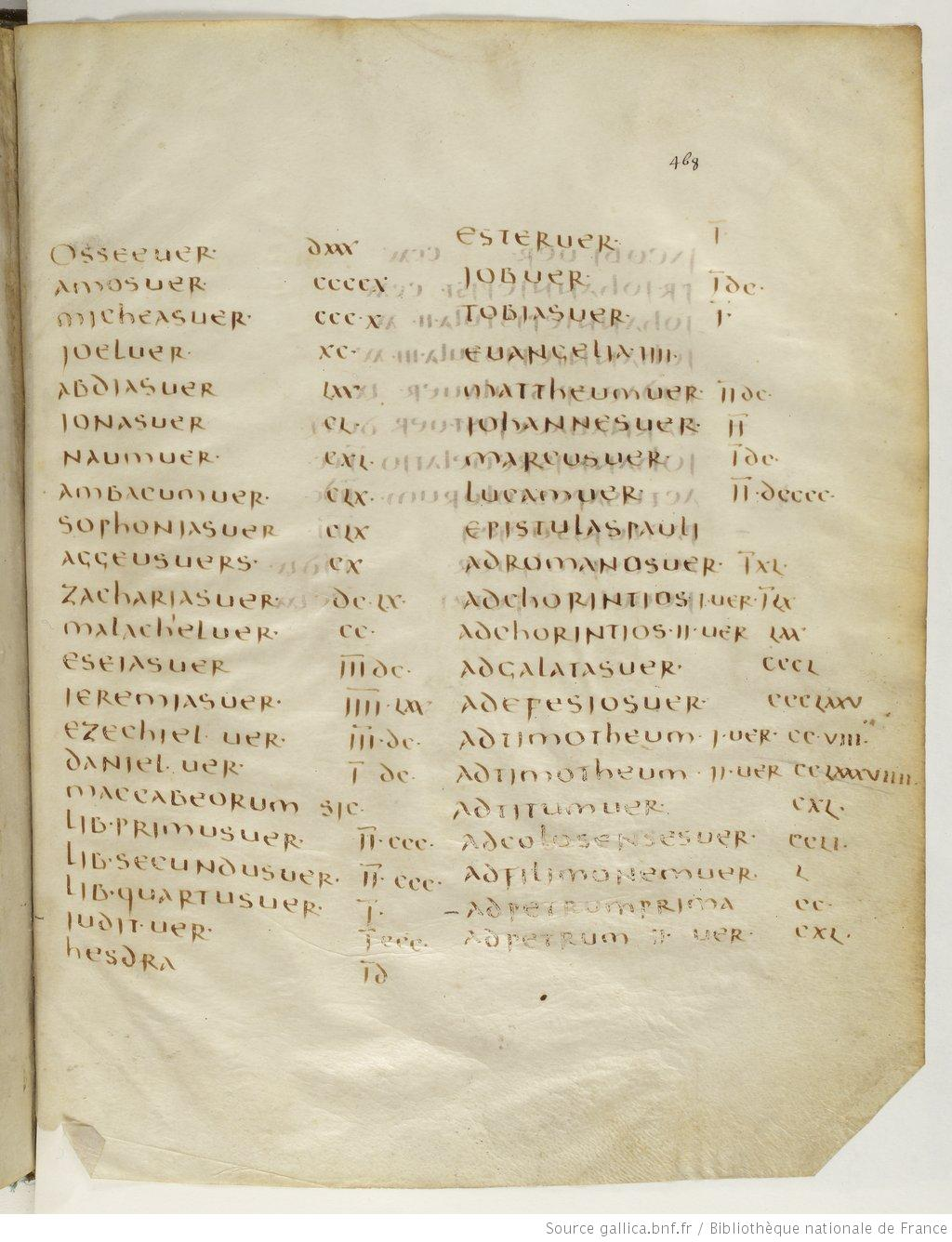 Catalogus Claromontanus in Codex Claromontanus, folio 468 recto